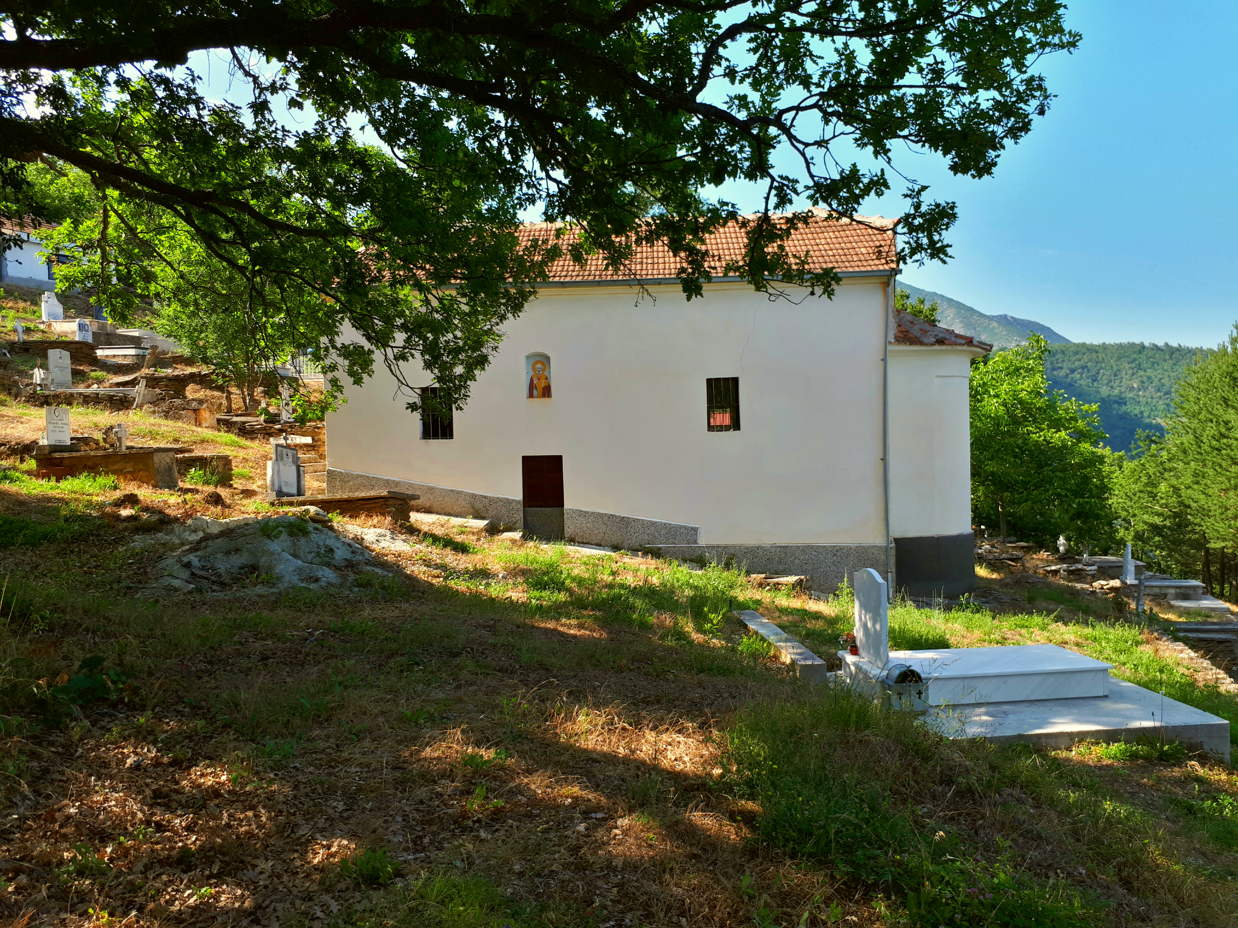 St. John Church in the village Rasteš